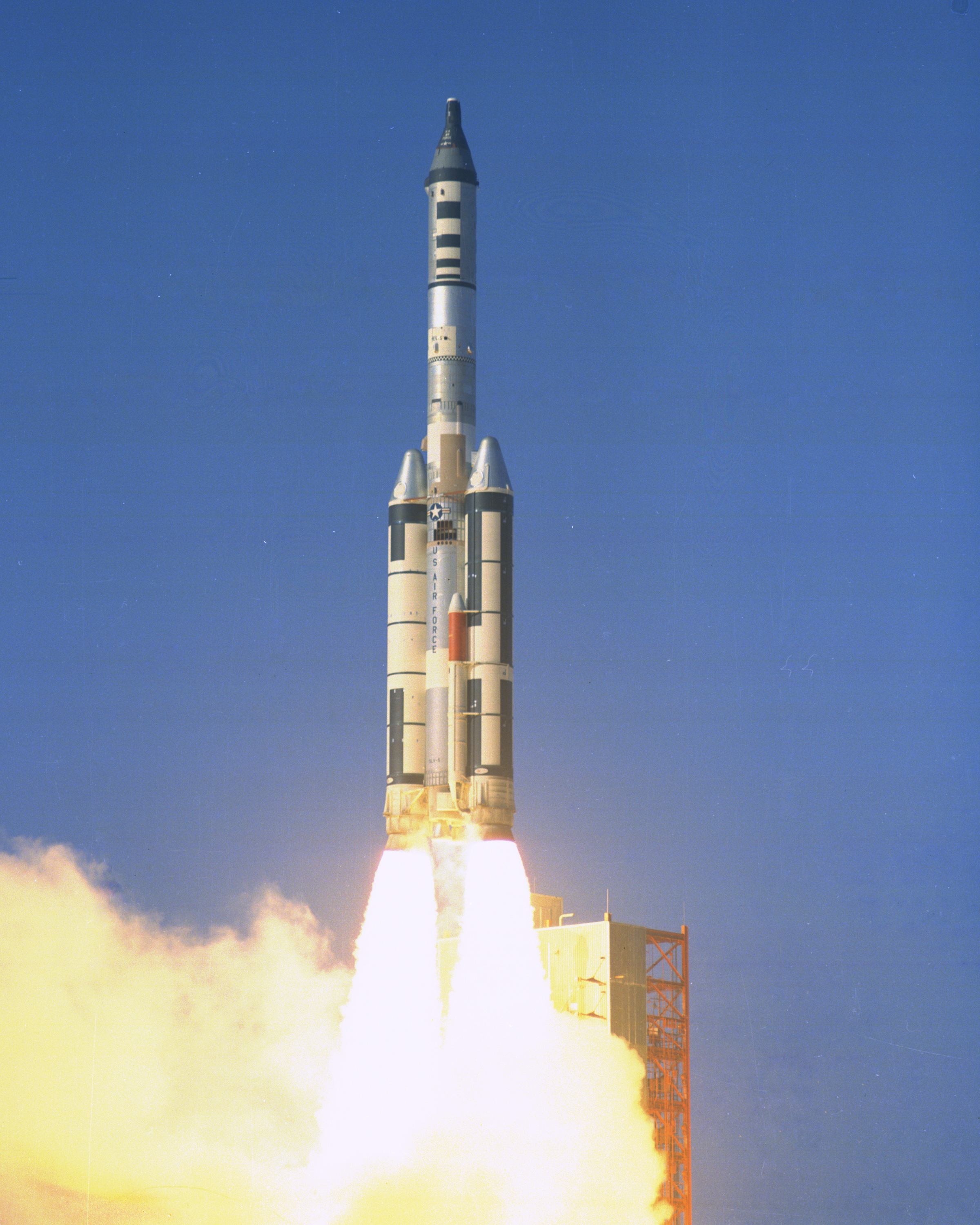 A Titan IIIC rocket lifts off to test a modified unmanned Gemini capsule (Gemini-B) as part of the Manned Orbiting Laboratory program. The November 3, 1966, launch included a simulated lab module. It was as close to space as the project would come.